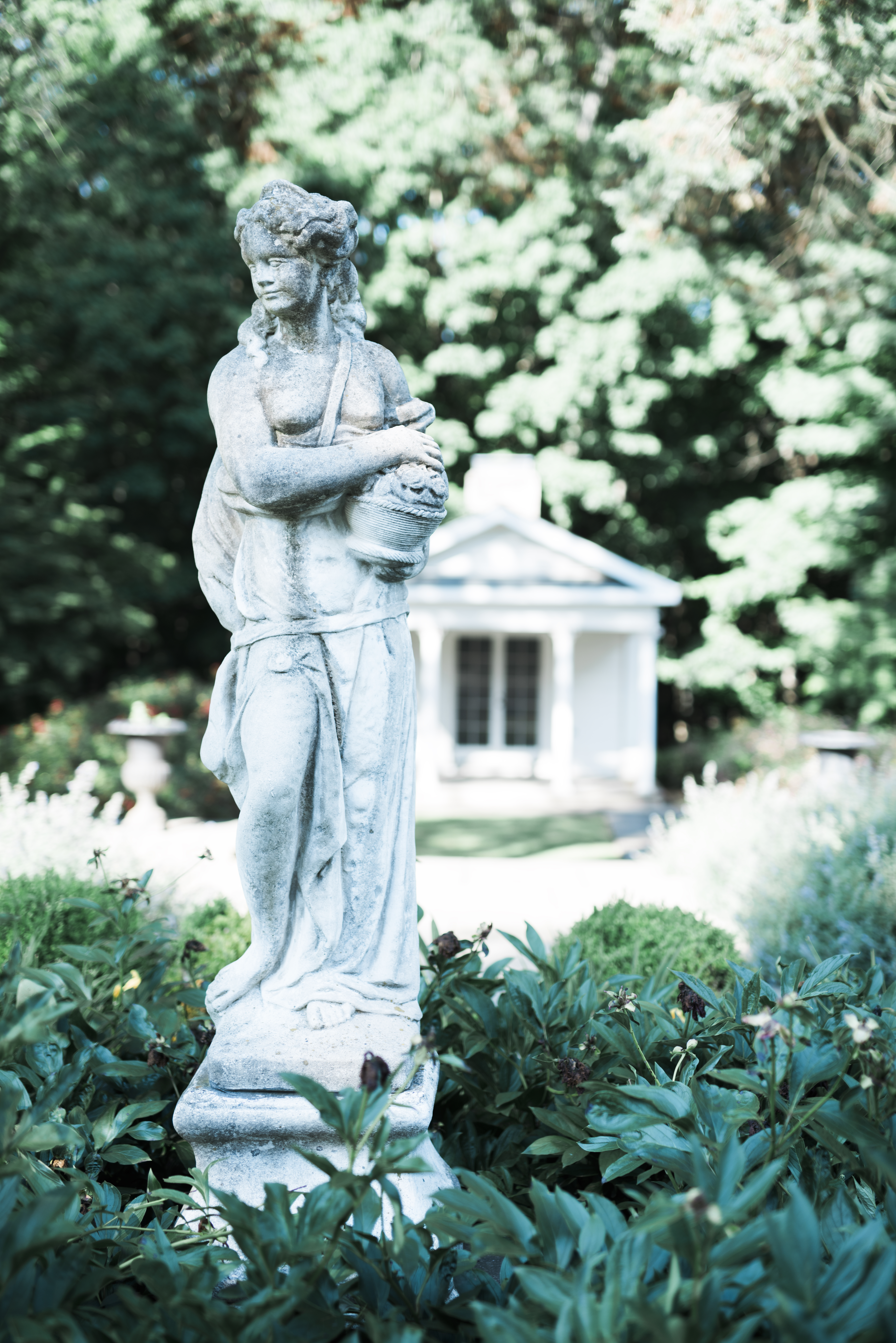 Statue in Cranbury Park.